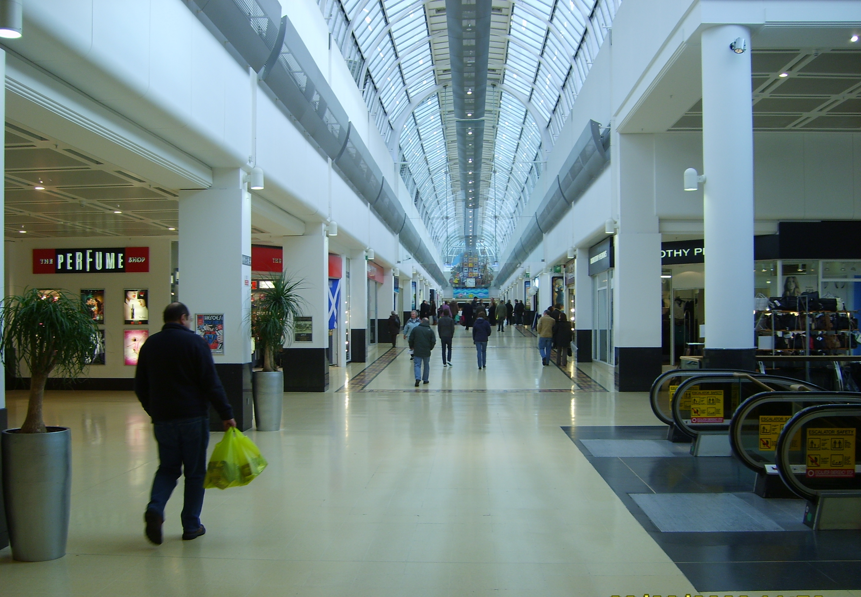 Shopping Mall